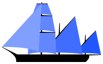 Hinted to 203 × 127. Best displayed as an integer multiple of those dimensions.